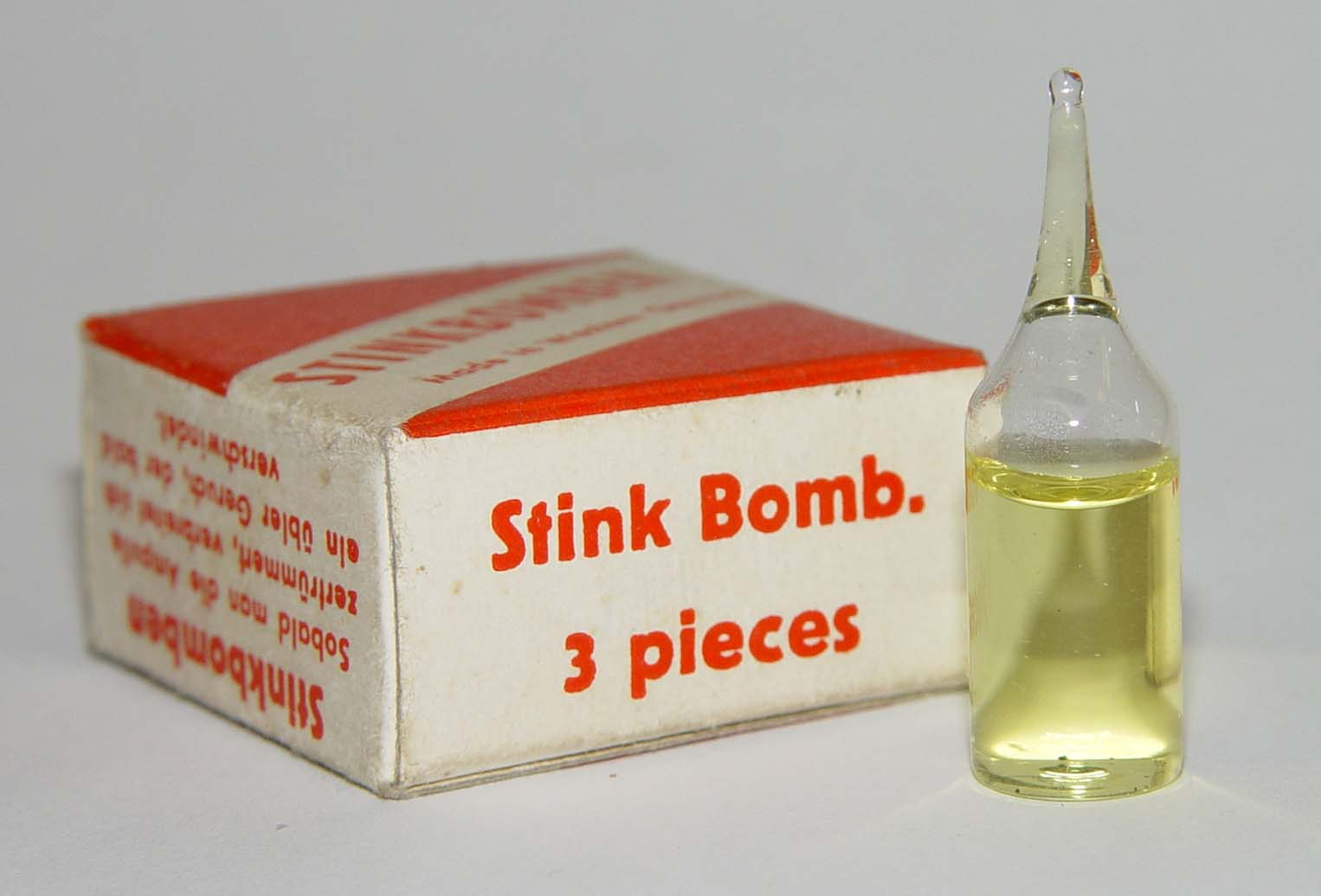 stink bomb in glass ampoule and their package